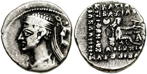 Coin of Pacorus I of Parthia. Avers King, crowned with a wreath by the Greek goddess of victory Nike. Reverse shows a seated archer holding a bow. Greek inscription reads ΒΑΣΙΛ[ΕΩΣ] ΒΑΣΙΛΕ[ΩΝ] [ΑΡΣΑΚΟΥ] [Ε]ΥΕΡΓΕΤΟΥ ΔΙΚΑΙΟΥ ΕΠΙΦΑΝΟΥΣ ΦΙΛΕΛΛΗΝΟΣ (king of kings Arsaces, bringer of plenty, the just, the illustrious, friend of the Greeks).